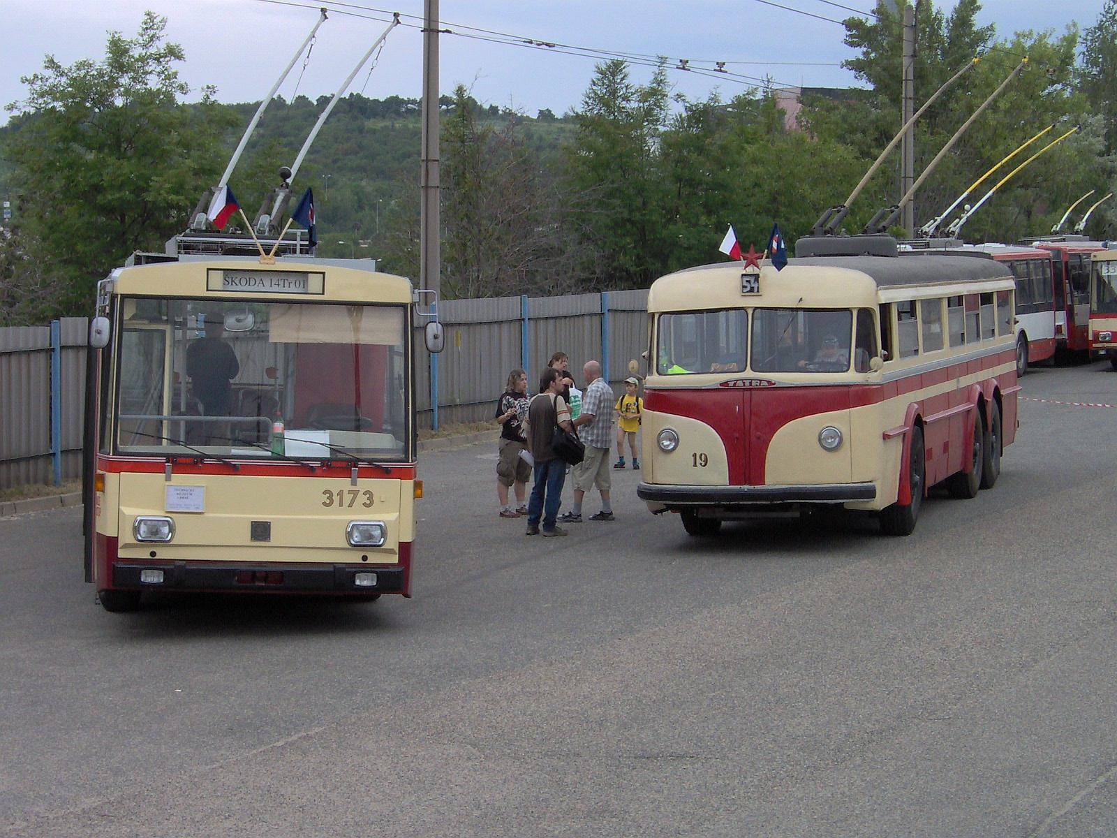 Historical trolleybuses Škoda 14Tr (left) and Tatra T 400 (right) in Brno, Czech Republic